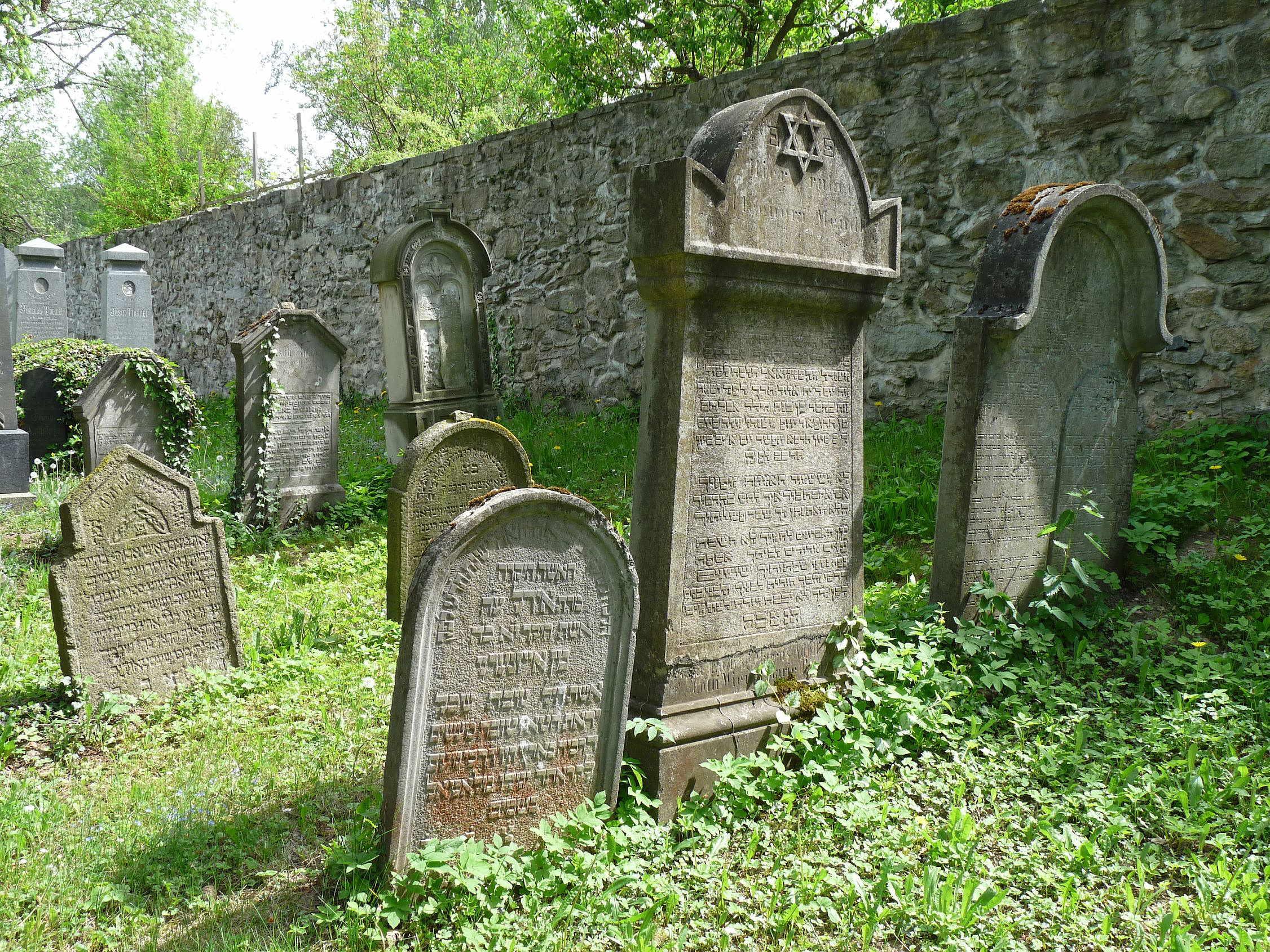 Jewish cemetery in the town of Votice, Benešov District, Central Bohemian Region, Czech Republic.